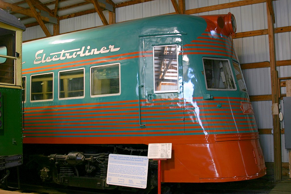 Chicago, North Shore and Milwaukee Electroliner, these used to run from the loop in Chicago to Milwaukee (95 miles) in 105 minutes, whoa